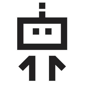 Dexter Industries Logo